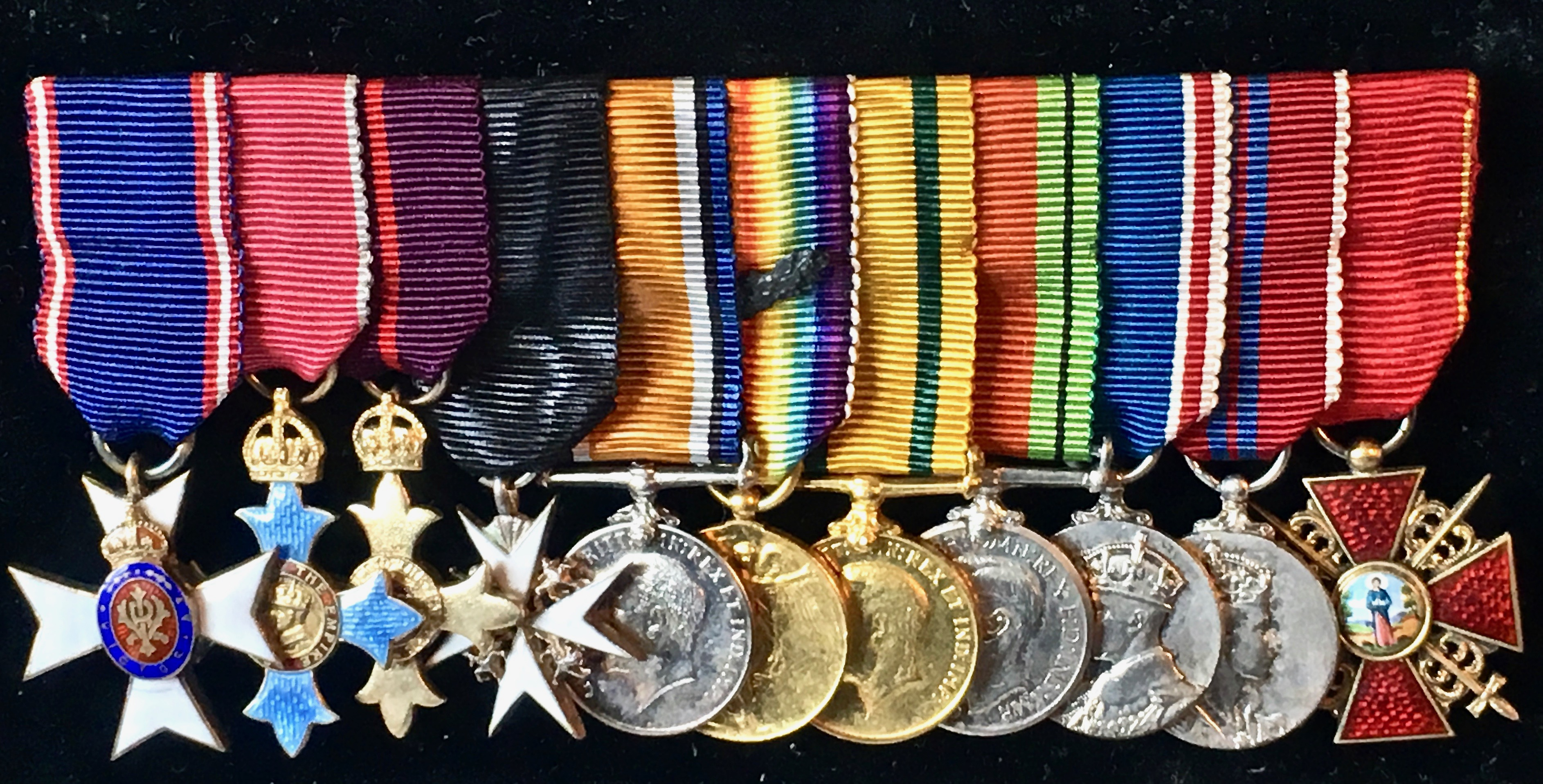 Photo of Sir Ivison Macadam's medals and decorations worn on chest